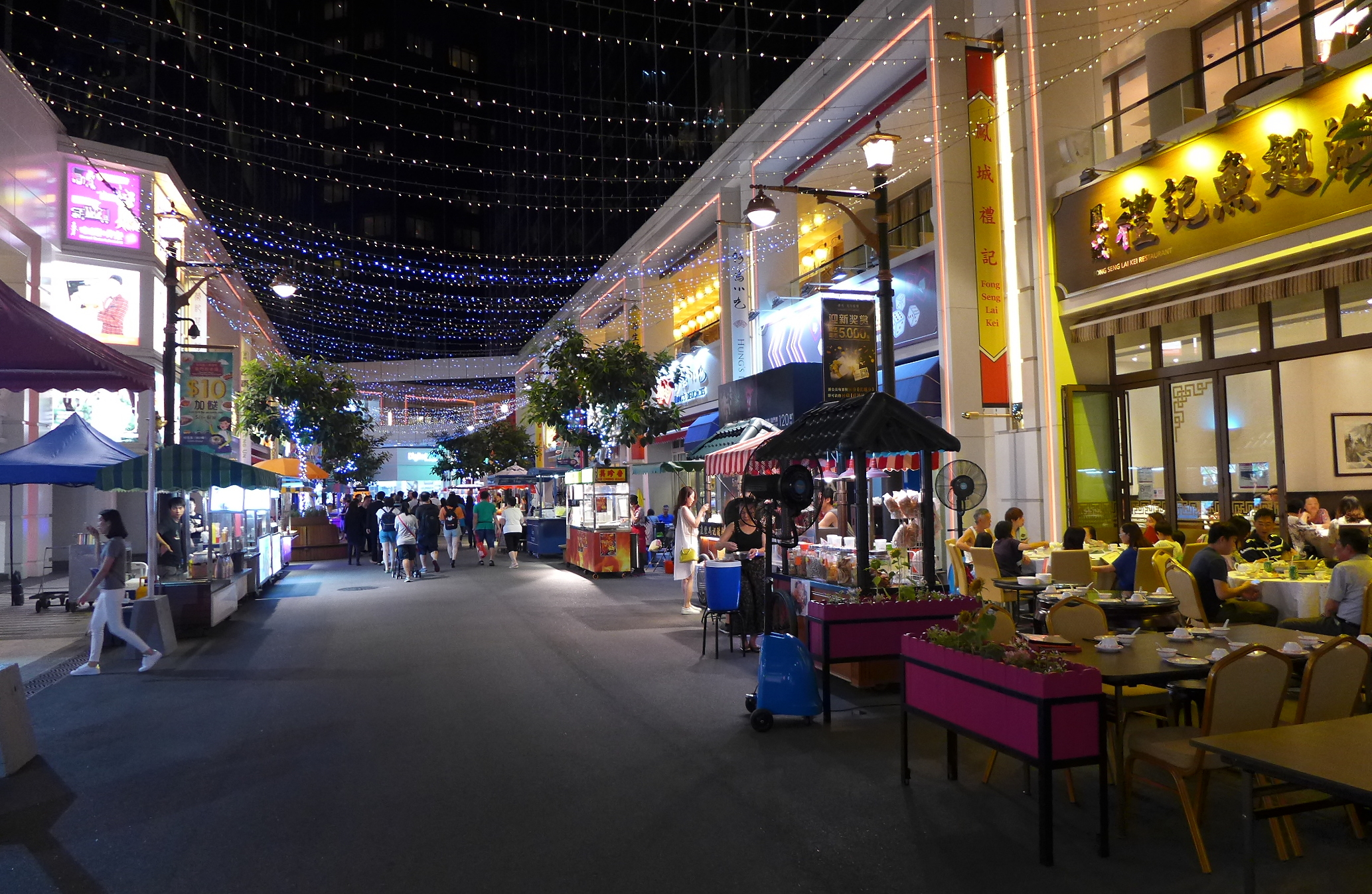 Broadway Macau The Broadway Food Street